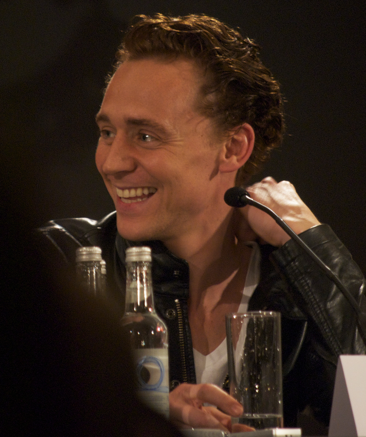 Tom Hiddleston at a press conference for Thor in London in April 2011.